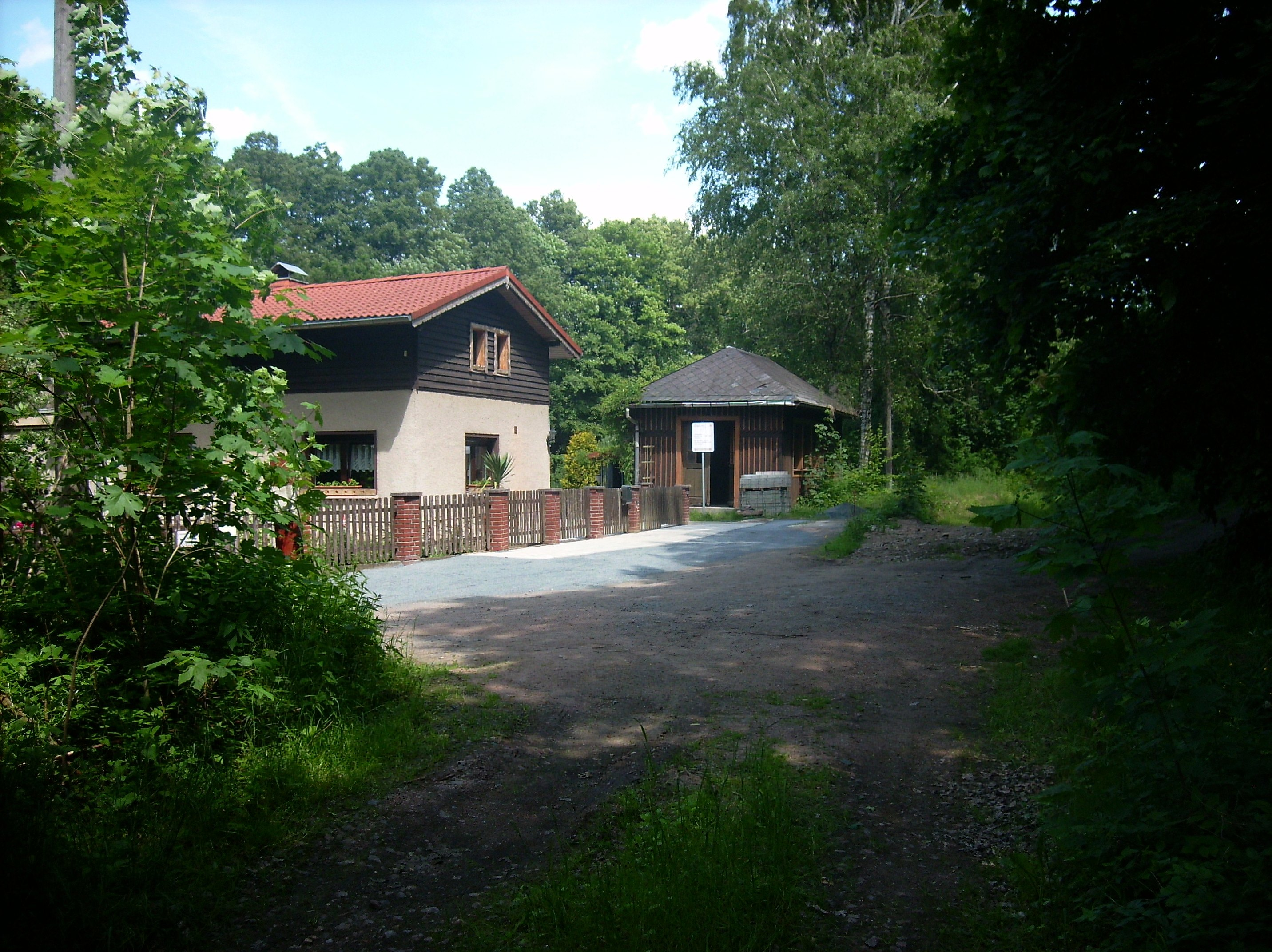 Kratzmühle station at the former Rosswein-Niederwiesa railway line near Schlegel (Hainichen, Mittelsachsen district, Saxony)